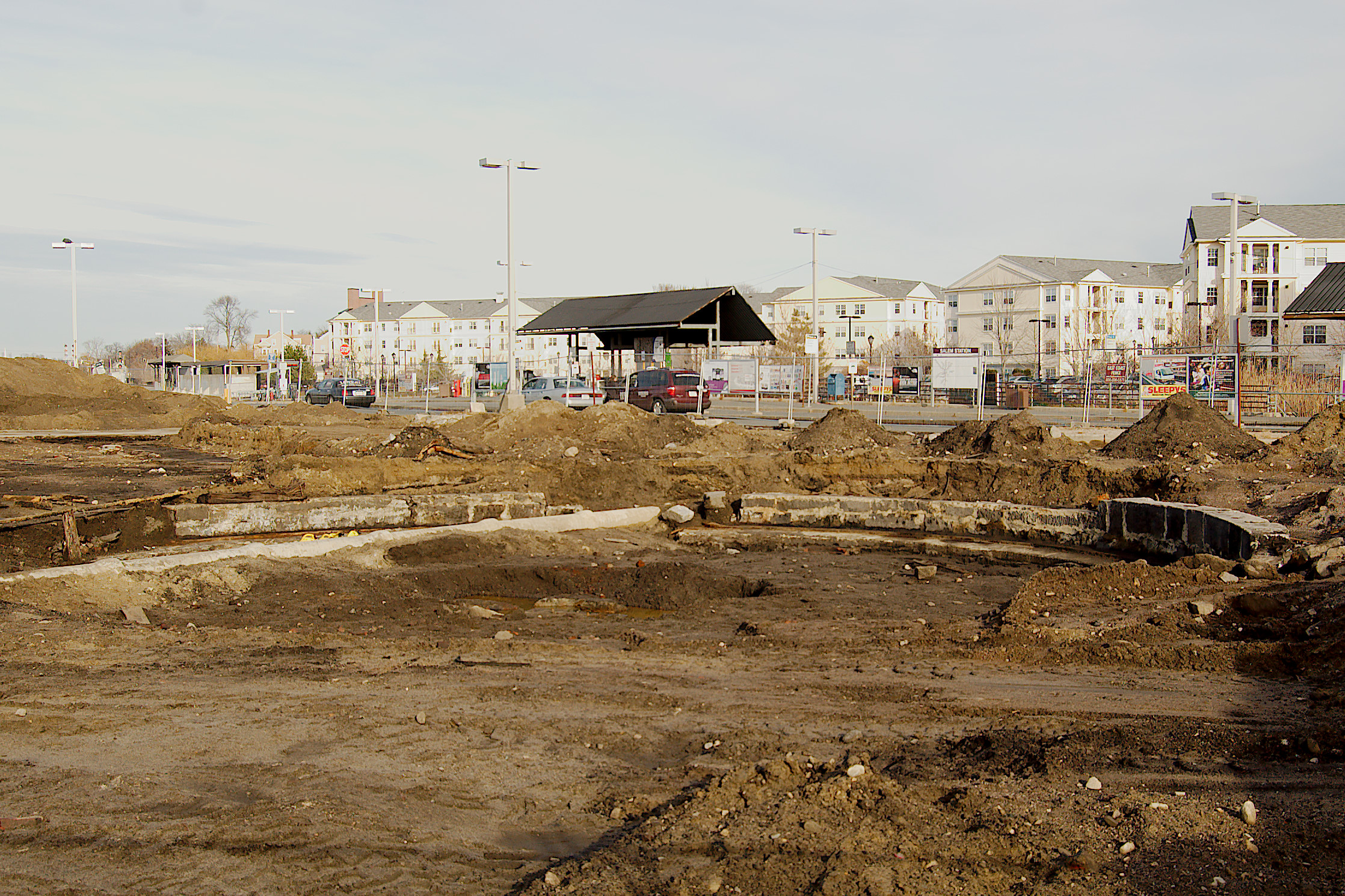 Archeological excavation of the former Salem roundhouse, in preparation for new MBTA parking garage. The curved structure may be the foundation of the turntable, from which steam locomotives were moved to stalls in the roundhouse. Canopies for the bus station and train station visible in background.